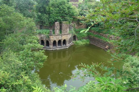 Surajkund at Hinglaj Fort in Mandsaur district in Madhya Pradesh, India